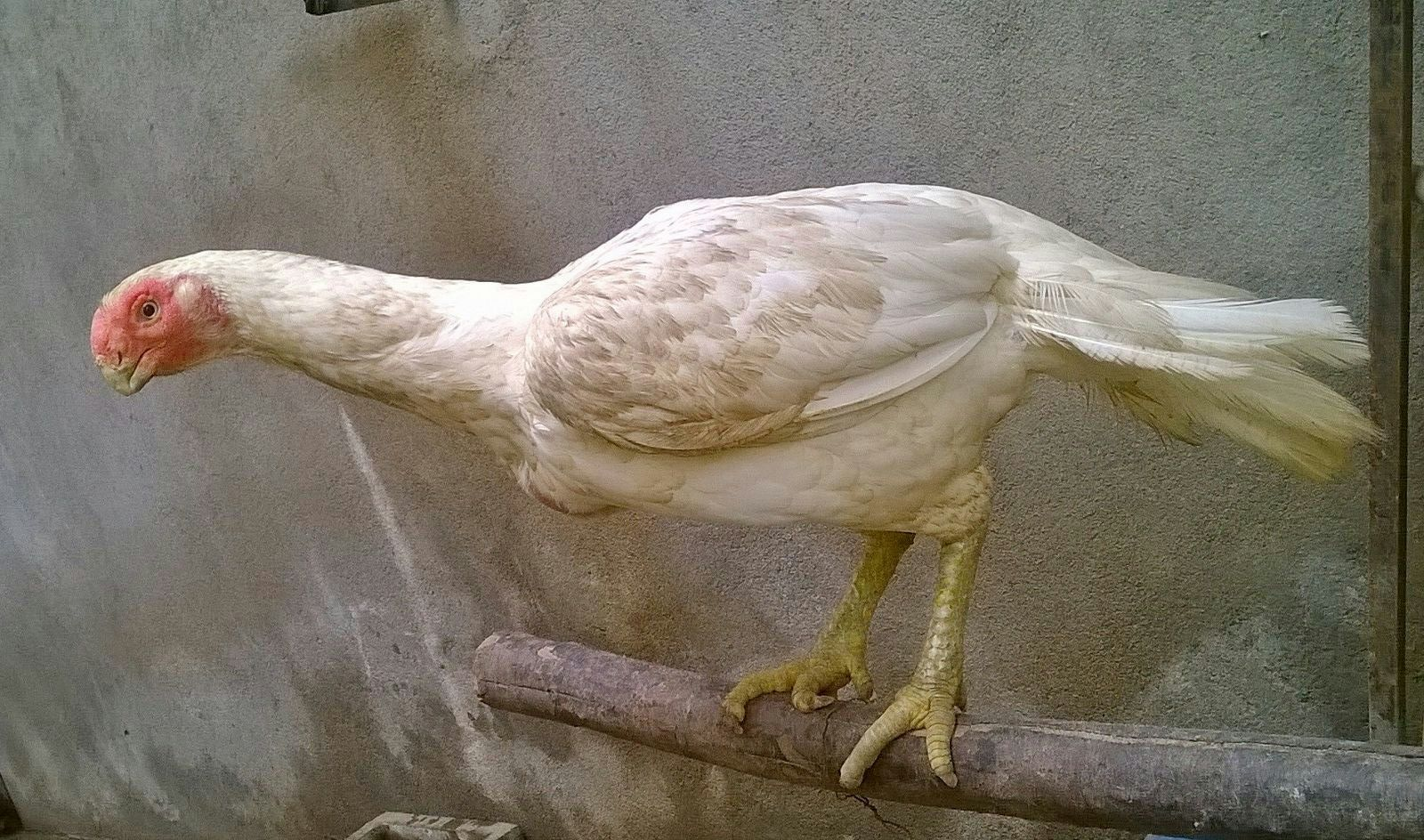 long tail parrot beak hen owned by nawaz from chennai